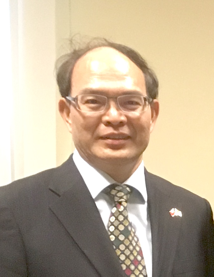 Vice President Chen, Mrs. Chen, National Security Council Deputy Secretary-General Tseng Hou-jen, Deputy Foreign Minister Wu Chih-Chung, and ROC Ambassador to the Holy See Matthew S.M. Lee take a group photo inside the Embassy of the ROC (Taiwan) to the Holy See. (2016/09/05) 授權方式及範圍：中華民國總統府│政府網站資料開放宣告 Authorization Method & Scope: Office of the President, Republic of China (Taiwan) | Government Website Open Information Announcement